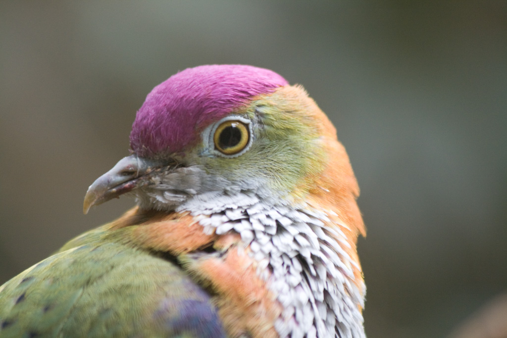 Superb Fruit-dove (Ptilinopus superbus) showing upper body and side of head.